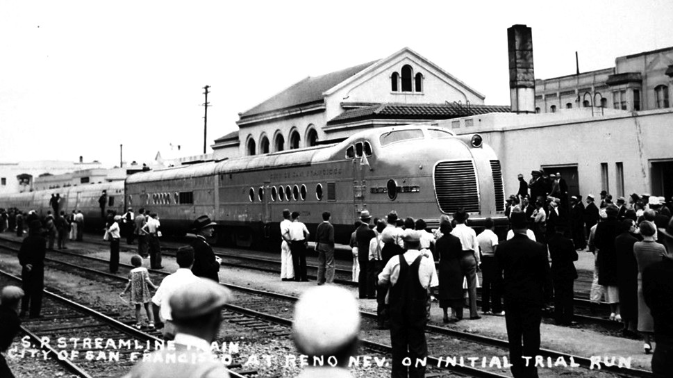 Postcard of The City of San Francisco at Reno, Nevada on its initial trial run. This is the M-10004 trainset which was replaced in 1938. City of San Francisco (train) service began in 1936 between Chicago and San Francisco.